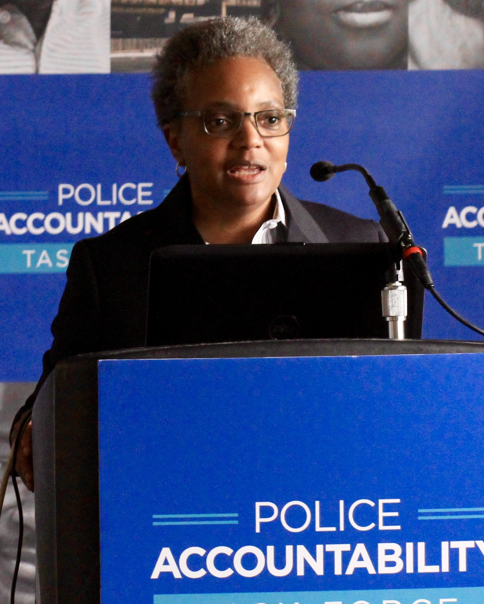 At the Harold Washington Library Winter Garden, April 13, 2016